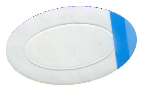 A gel sticking plaster/bandaid/elastoplast